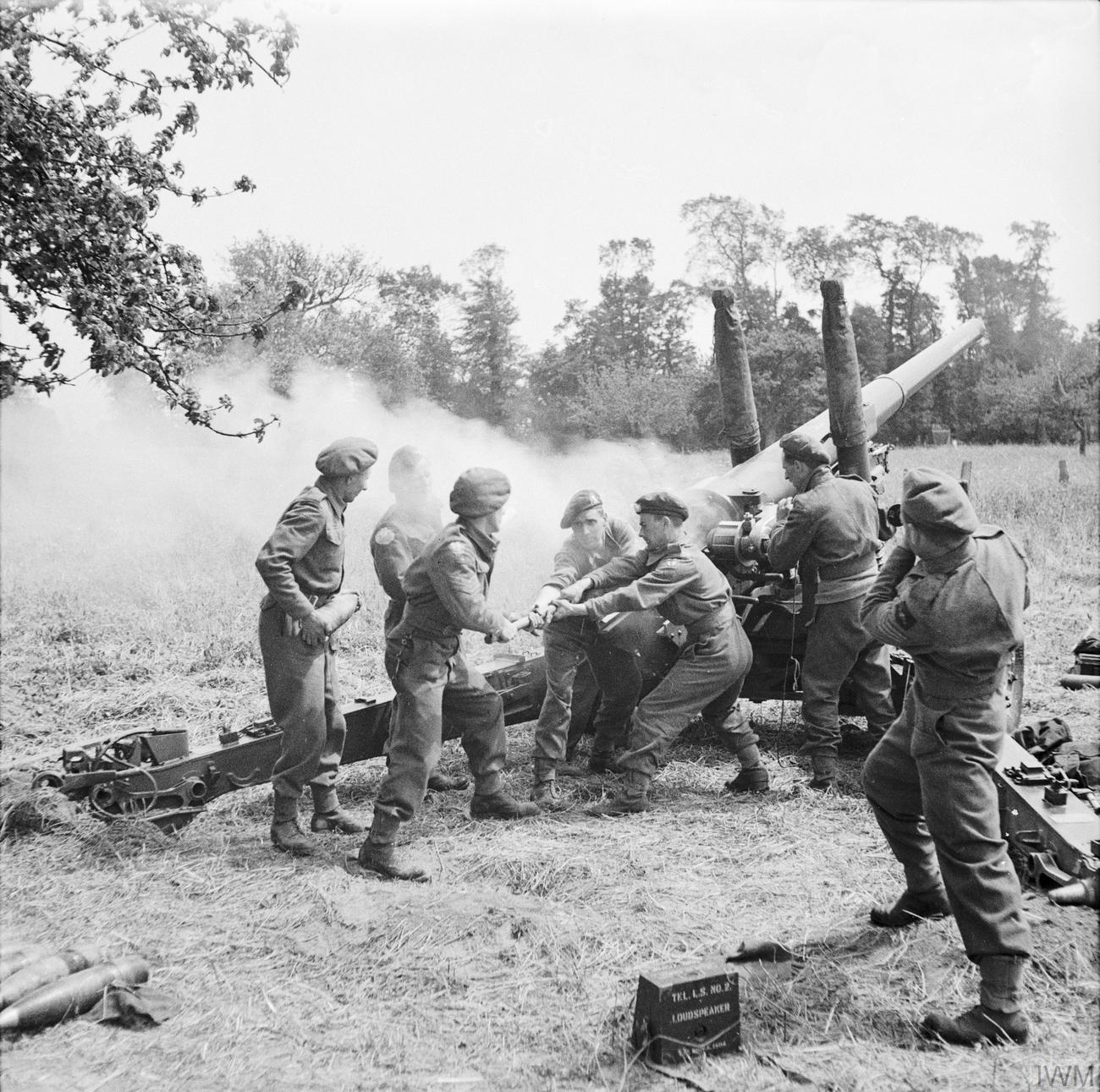 The Allied Campaign in North-west Europe, 6 June 1944 - 7 May 1945 The Battle for Normandy: A British 4.5 inch gun being primed ready for firing by men of 211 Battery, 64th Medium Regiment, Royal Artillery near Tilly-sur-Seulles, during the holding operation before the push to Caen.